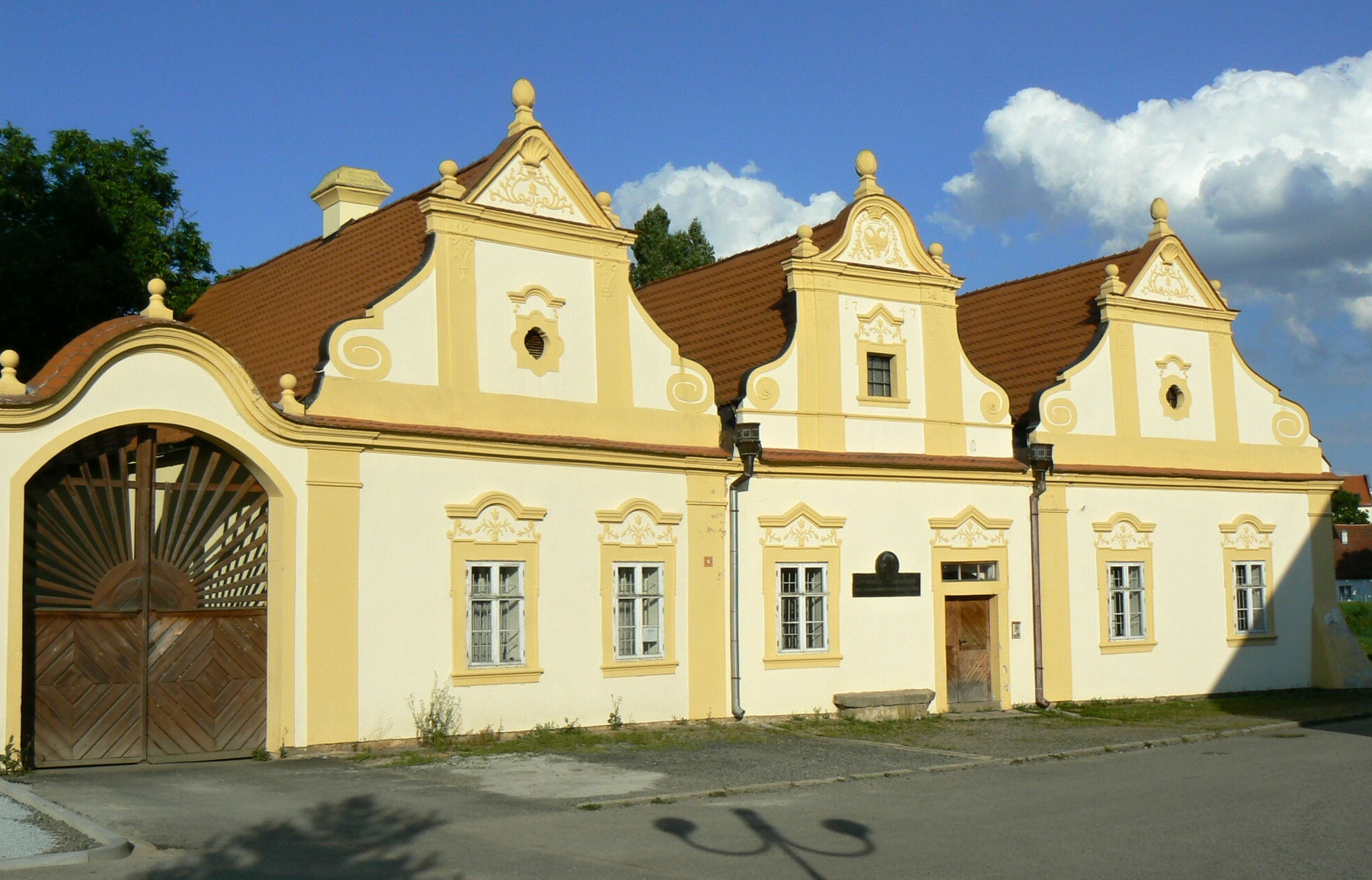 Old post-office (1548) in town Stod in Plzeň-South District